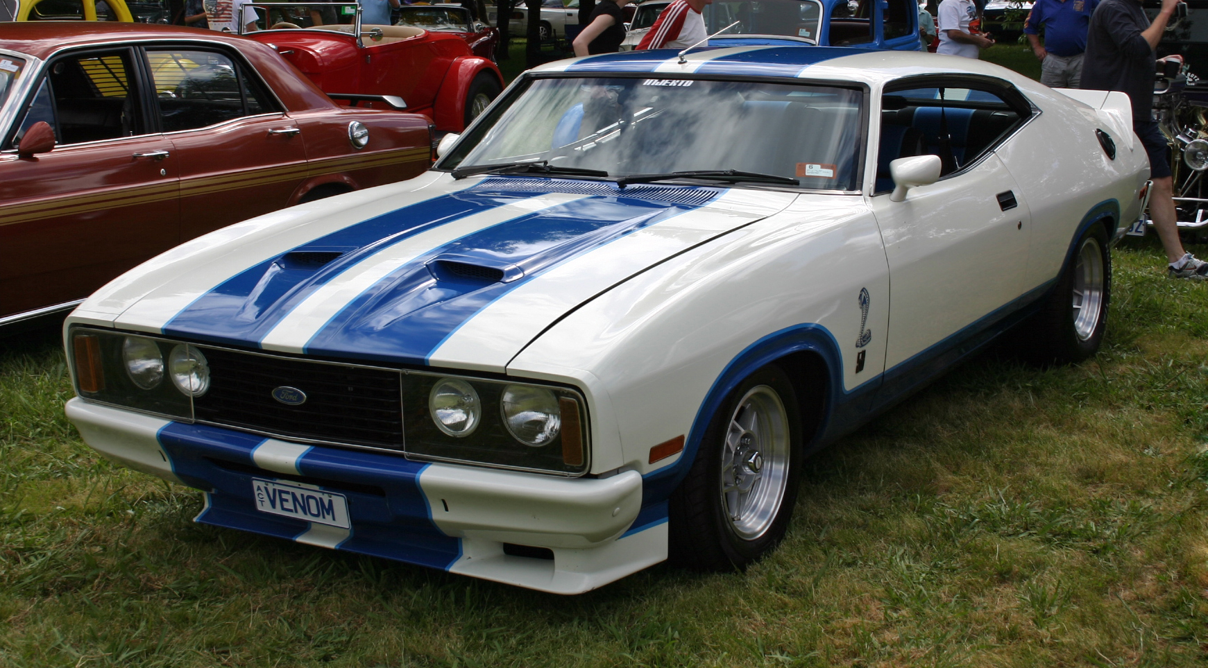 XC Falcon Cobra. I recropped original image for use on my ad-supported automotive website (Ate Up With Motor). This is the edited version.